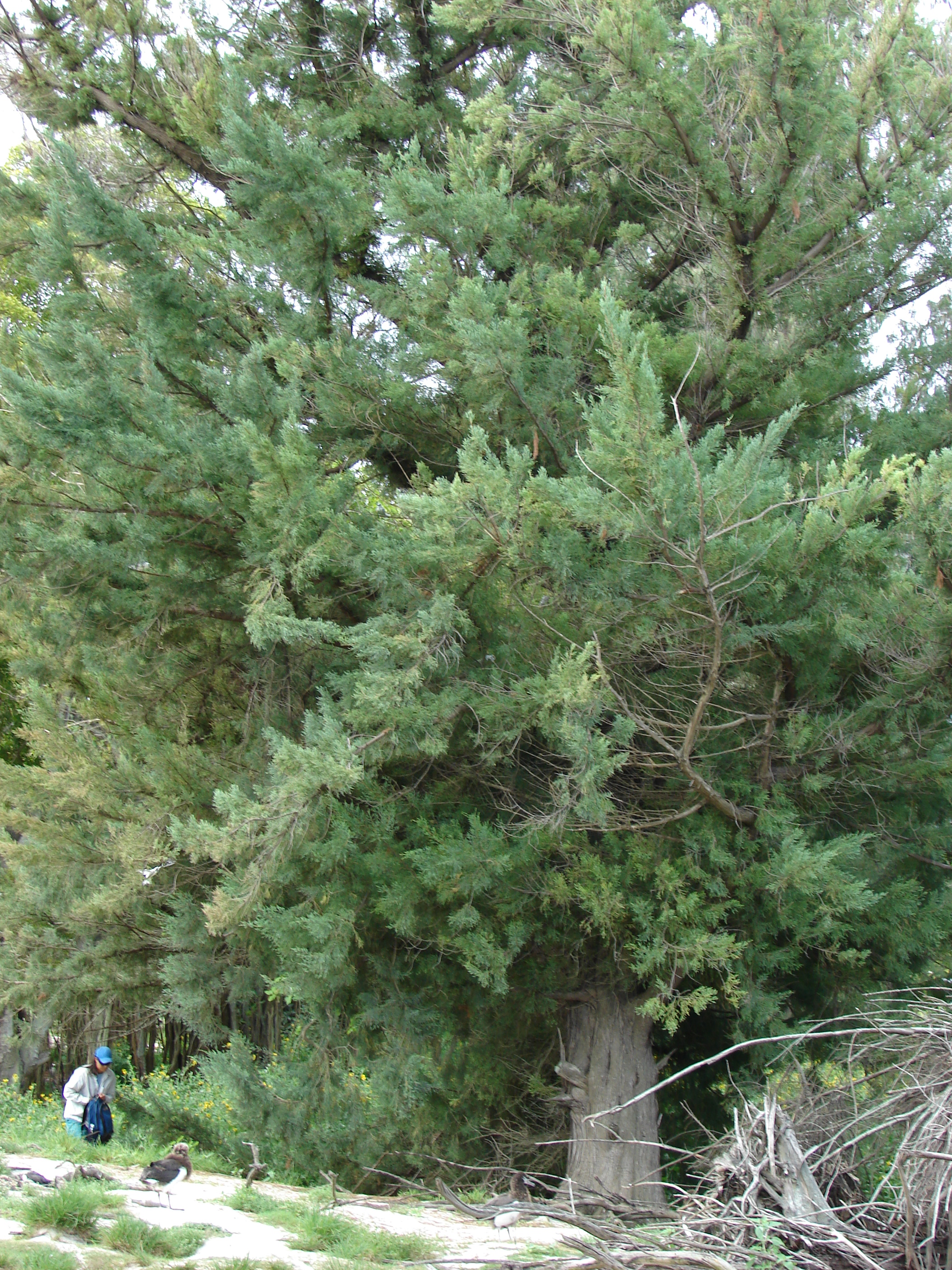 Juniperus bermudiana (habit with Kim). Location: Midway Atoll, Cable Company buildings Sand Island